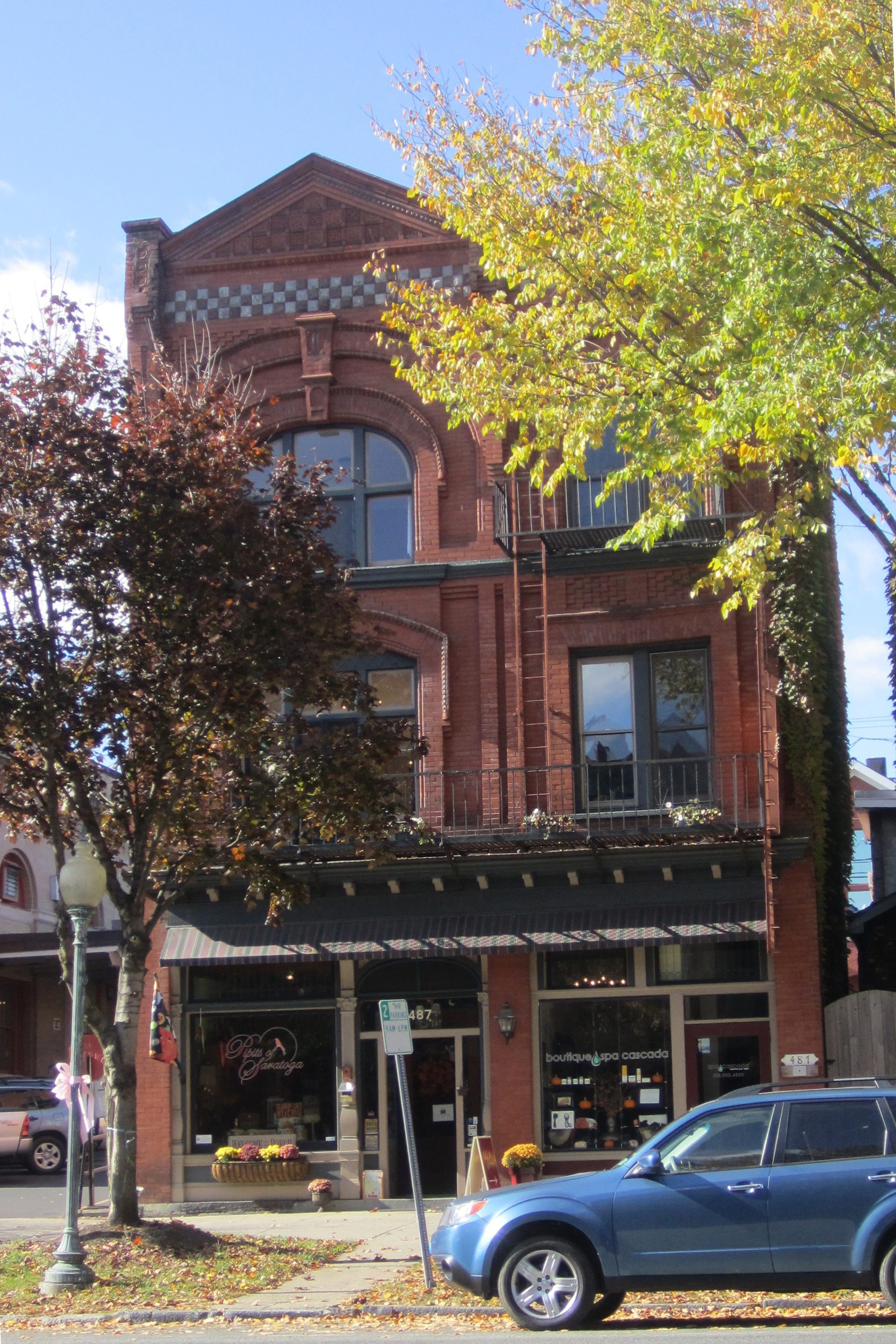 487 Broadway, Saratoga Springs NY. Designed by R. Newton Brezee for Davis Colemsn. Residence, 1887